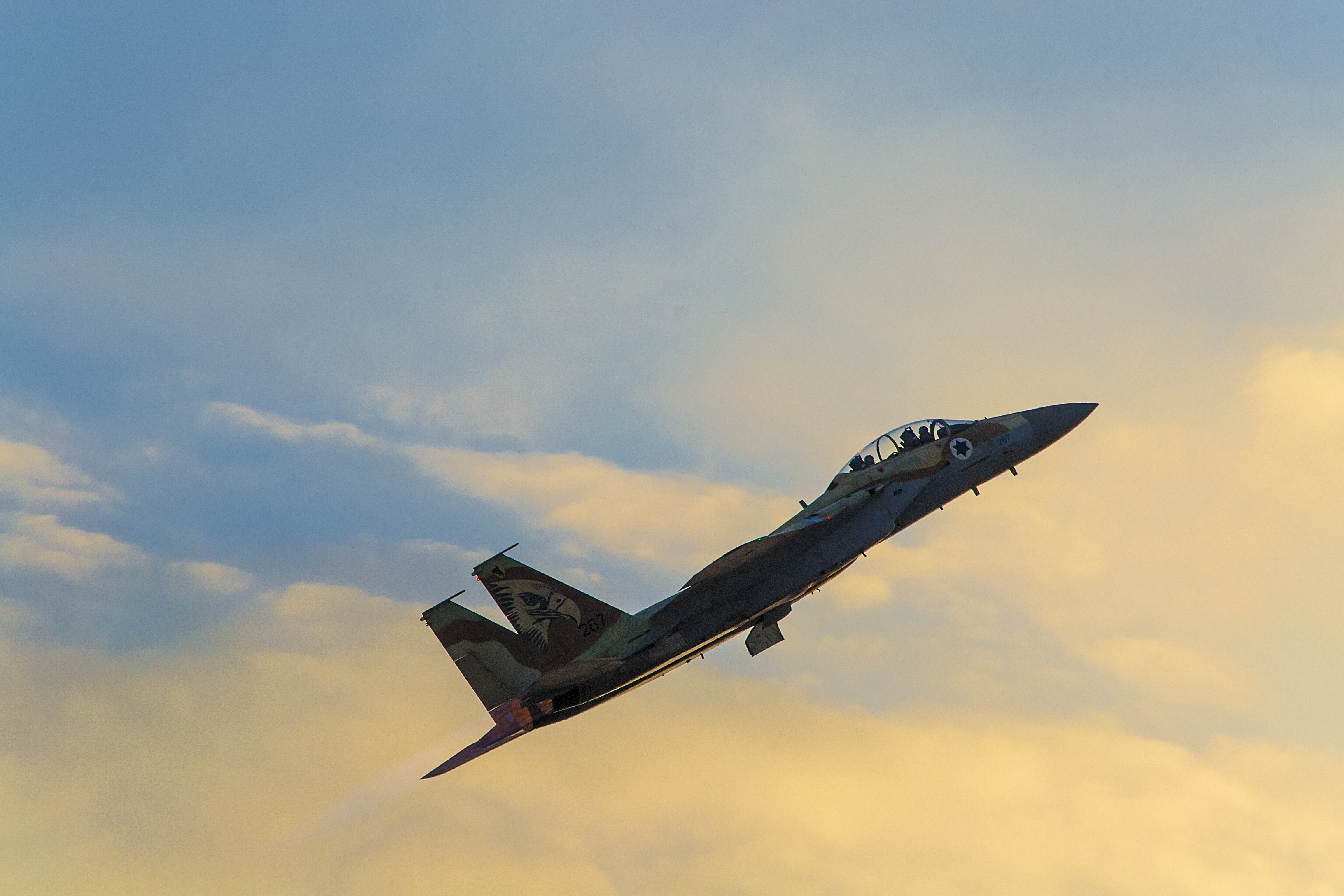 On Graduates of Aviation Course 165 of IAF